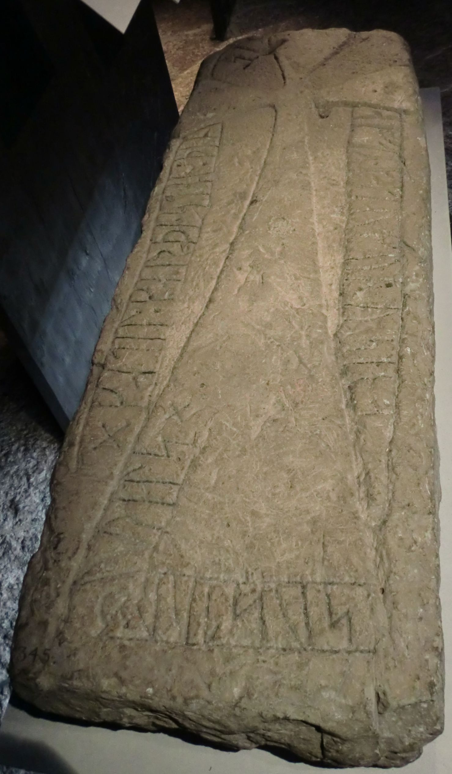 Graveslab with cross in relief and runic inscription "Kättil made this stone after Kata, his wife, Torgils sister." Found close to a stone church from early 11th-century at Varnhem monastery, Västergötland, Sweden. On display at Västergötlands Museum i Skara.